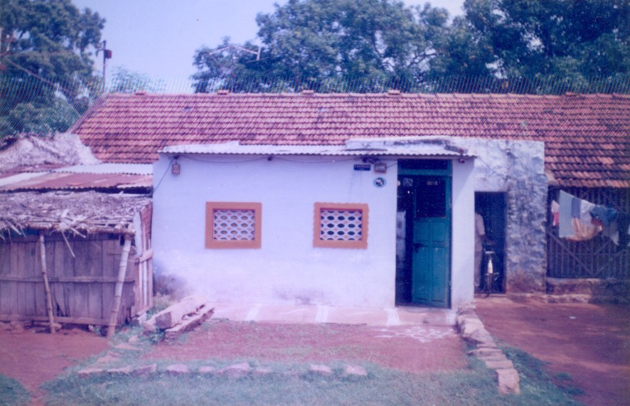 A house inside "C"-Type Railway Quarters near Railway Mixed Primary School, Golden Rock